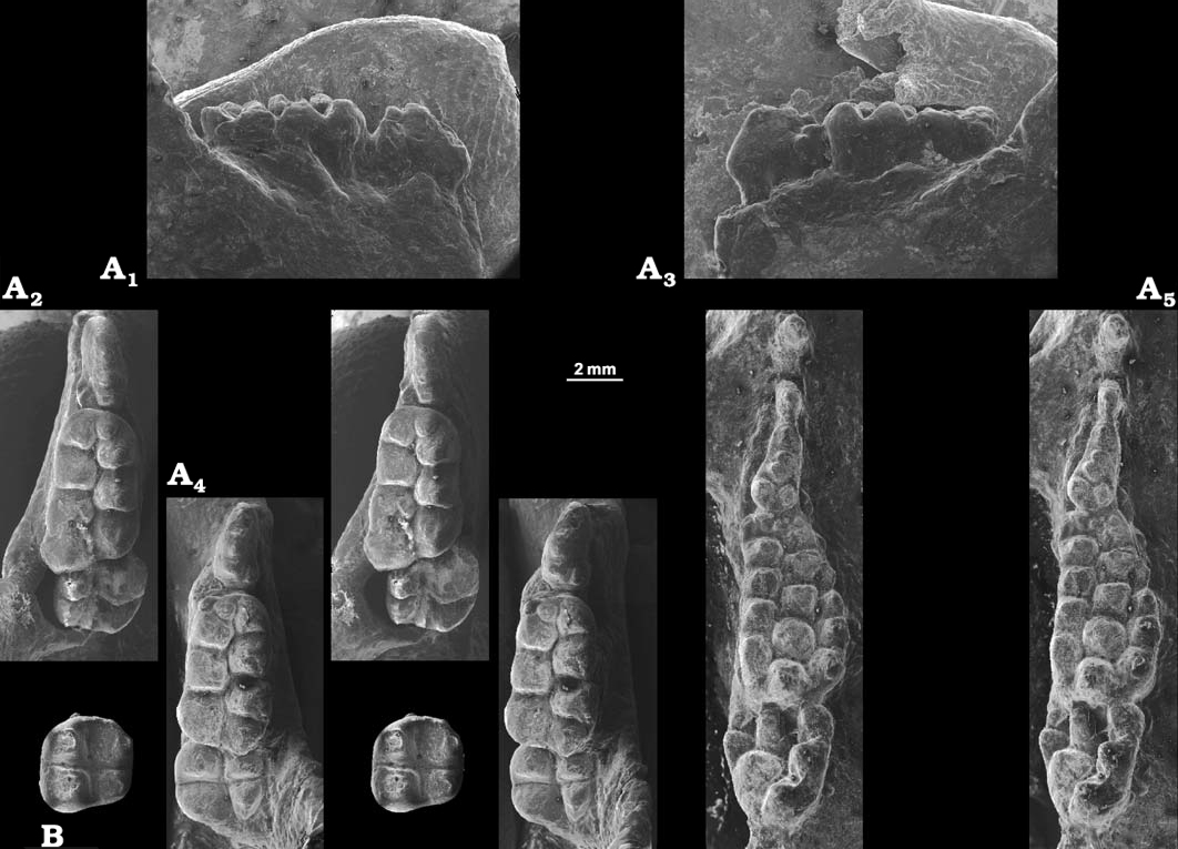 Catopsbaatar catopsaloides, Gobi Desert, Mongolia, ?upper Campanian. A. ZPAL MgM−I/78, holotype (juvenile individual) from Hermiin Tsav I. SEM micrographs of the dentition. Fragment of the right dentary in lateral view, showing p3 (peg−like adhering the wall of the dentary), p4 and m1 (A1). Stereo−micrographs of p4, m1, and m2 of the same in dorsal view (A2). Fragment of the left dentary of the same specimen, showing p4 and m1, the p3 is broken, only its lower part has been preserved (A3). Stereo−photograph of the complete right side of the upper dentition, showing P1, P3, P4, M1, and erupting M2 (A5); P1 and P3 are double−rooted. B. ZPAL MgM−I/159, Khulsan, Nemegt Valley, right m2 in occlusal view.